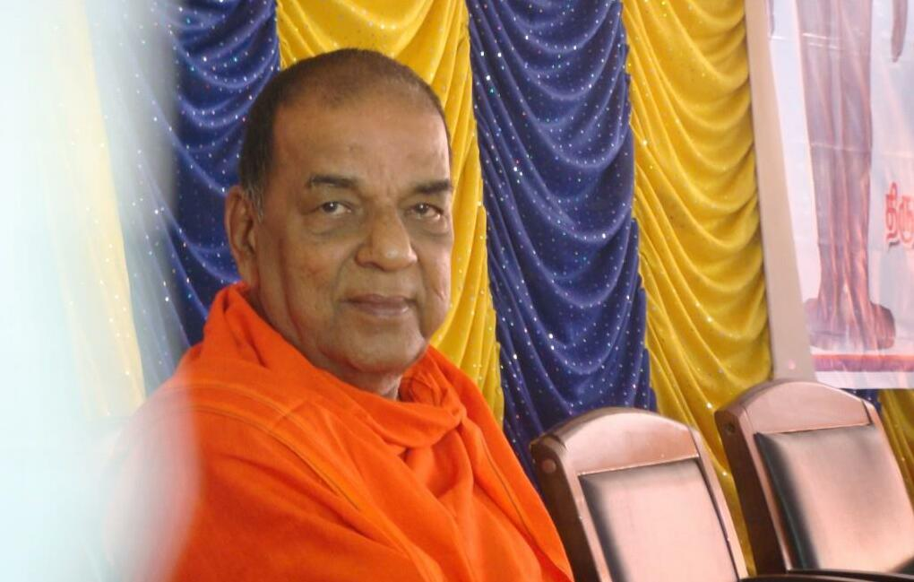 Picture of Bhattaraka Laxmisena. The head of the Mel Sithamur Jain Math, Gingee, Tamil Nadu, India. He is the head of the Tamil Jains.